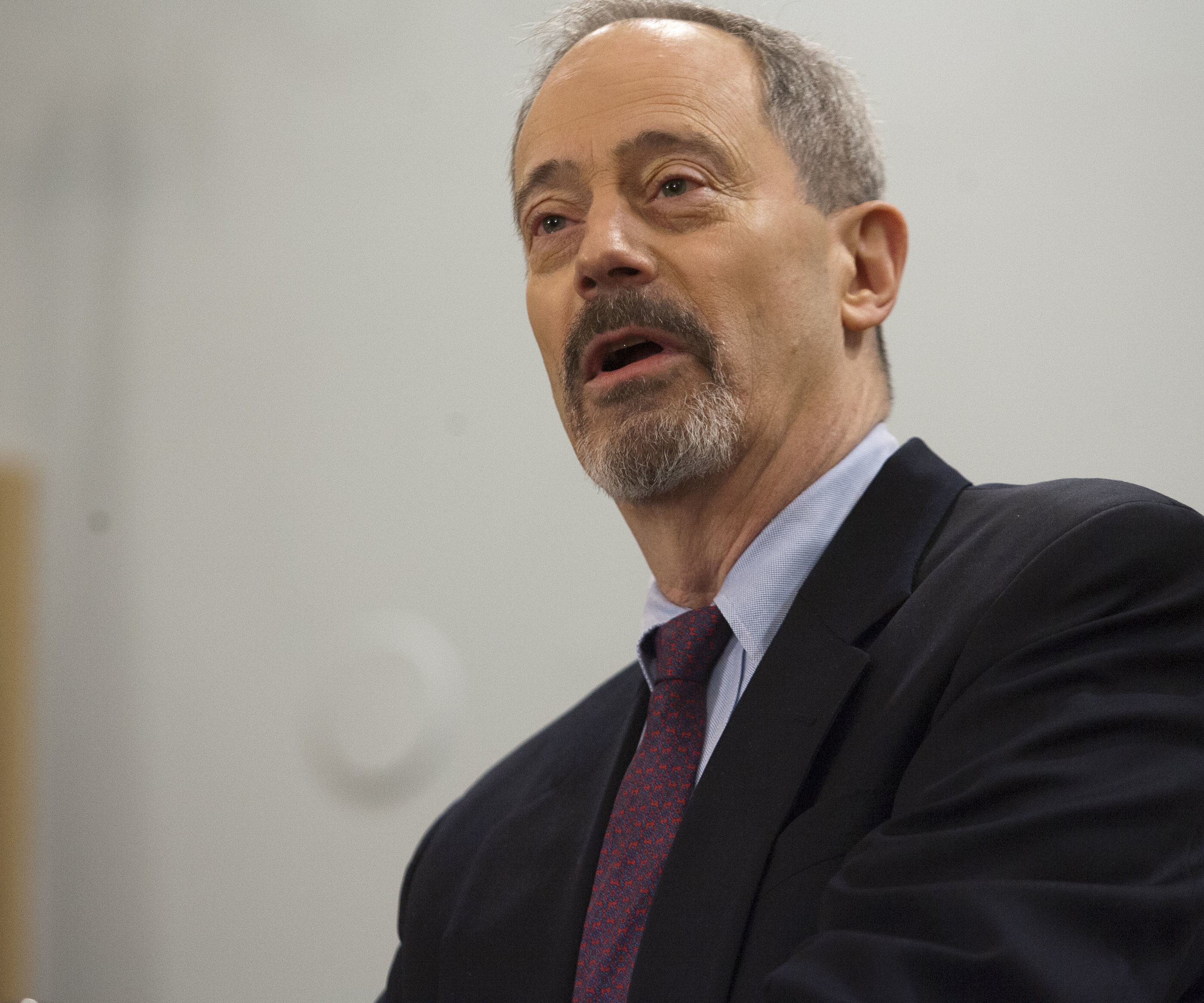 Clark McCauley Hosted March 4, 2013. Miller Center, Charlottesville VA. For more information, visit